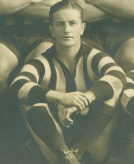 Photo of Vin Doherty in 1935